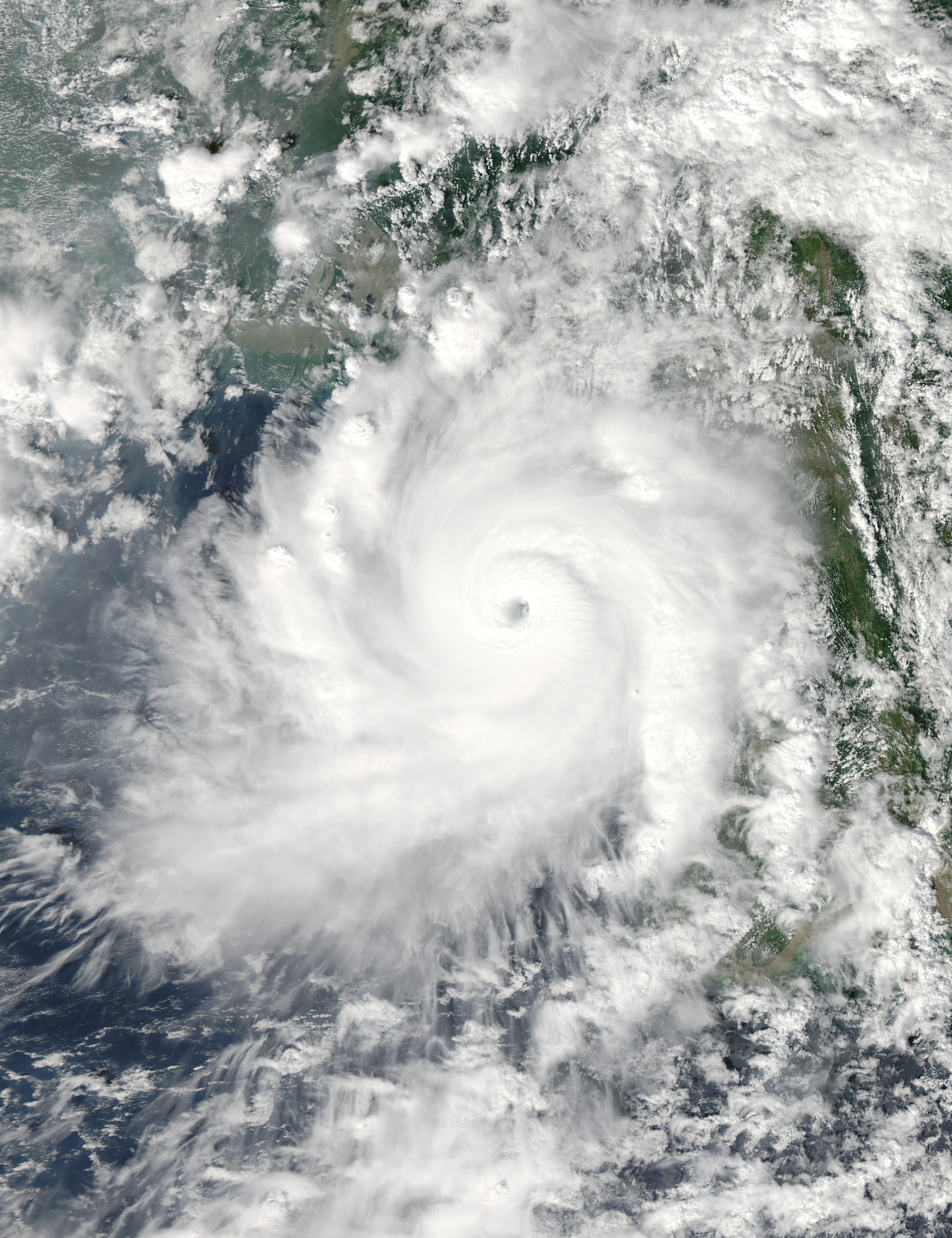 This image, taken by the Moderate Resolution Imaging Spectroradiometer (MODIS) on NASA’s Aqua satellite, shows Very Severe Cyclonic Storm Giri moving ashore over Myanmar (Burma) at 1:25 p.m. local time (06:55 UTC) on October 22, 2010. It shows a compact, mature storm with a well-defined eye and a circular shape.